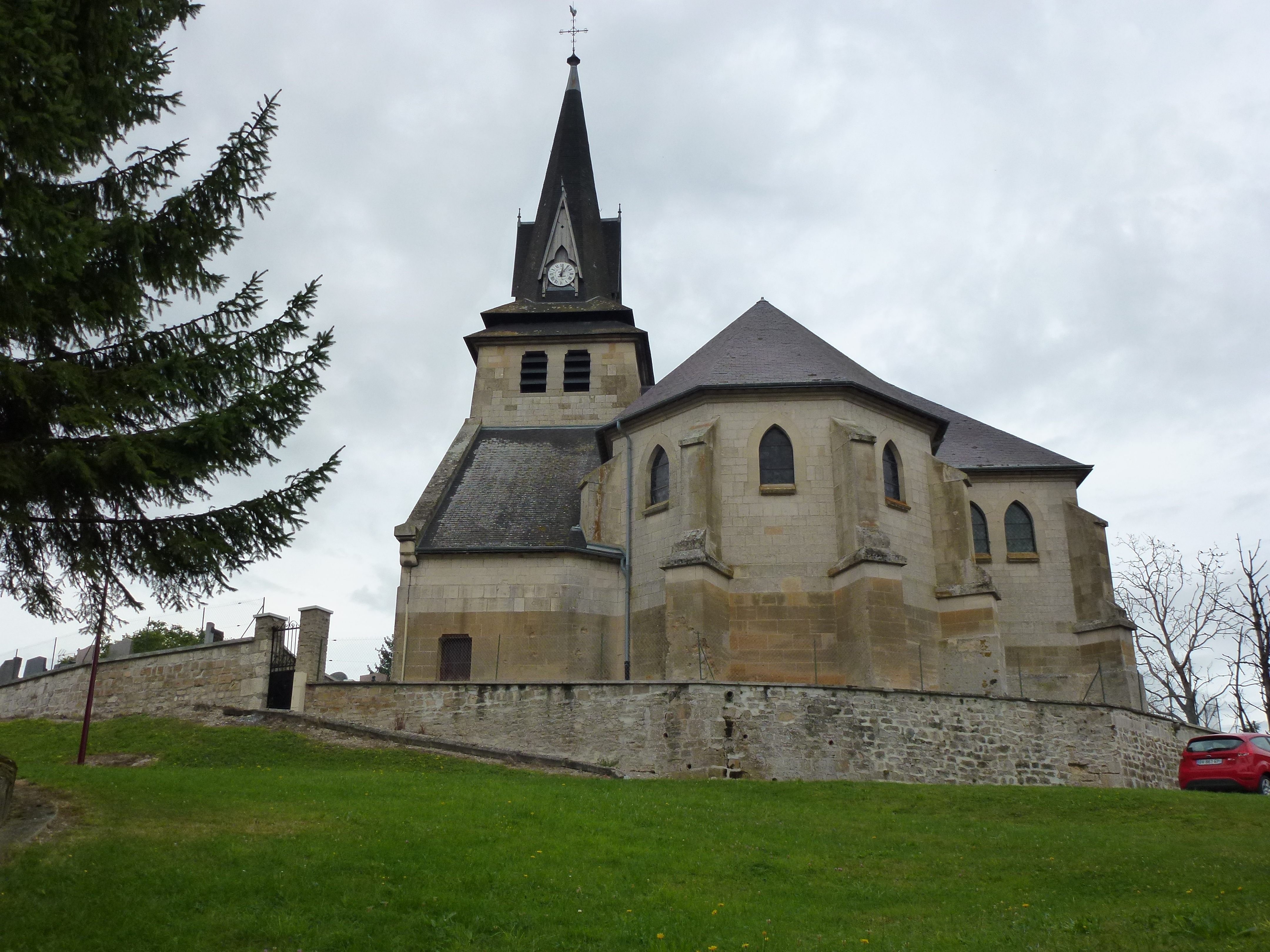 Seuil (Ardennes) église Sainte-Anne, chevet